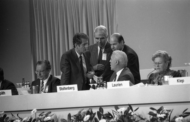 CDU Bundesparteitag Mainz 7.-8. Oktober 1986 Information added by Wikimedia users.